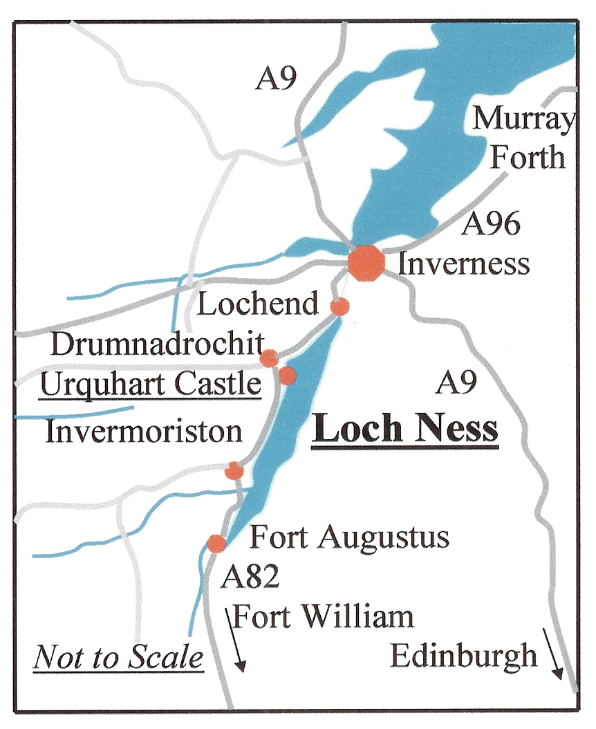 Map of Loch Ness, Scotland